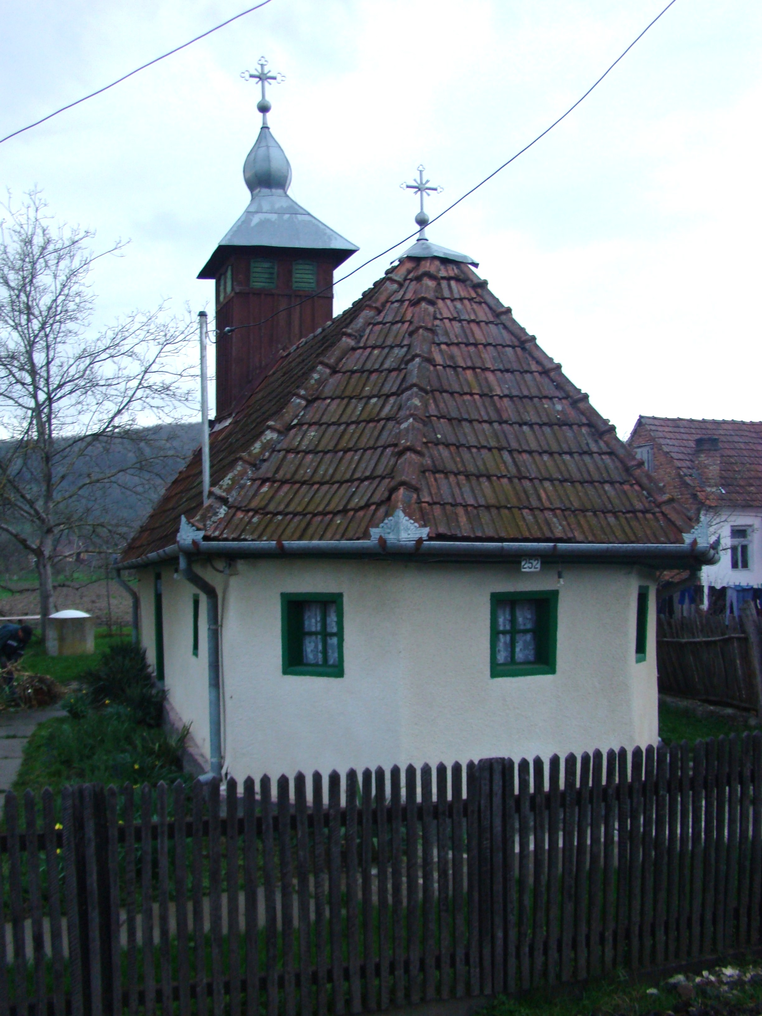 Wooden greek-catholic church in Julița, Arad county, Romania